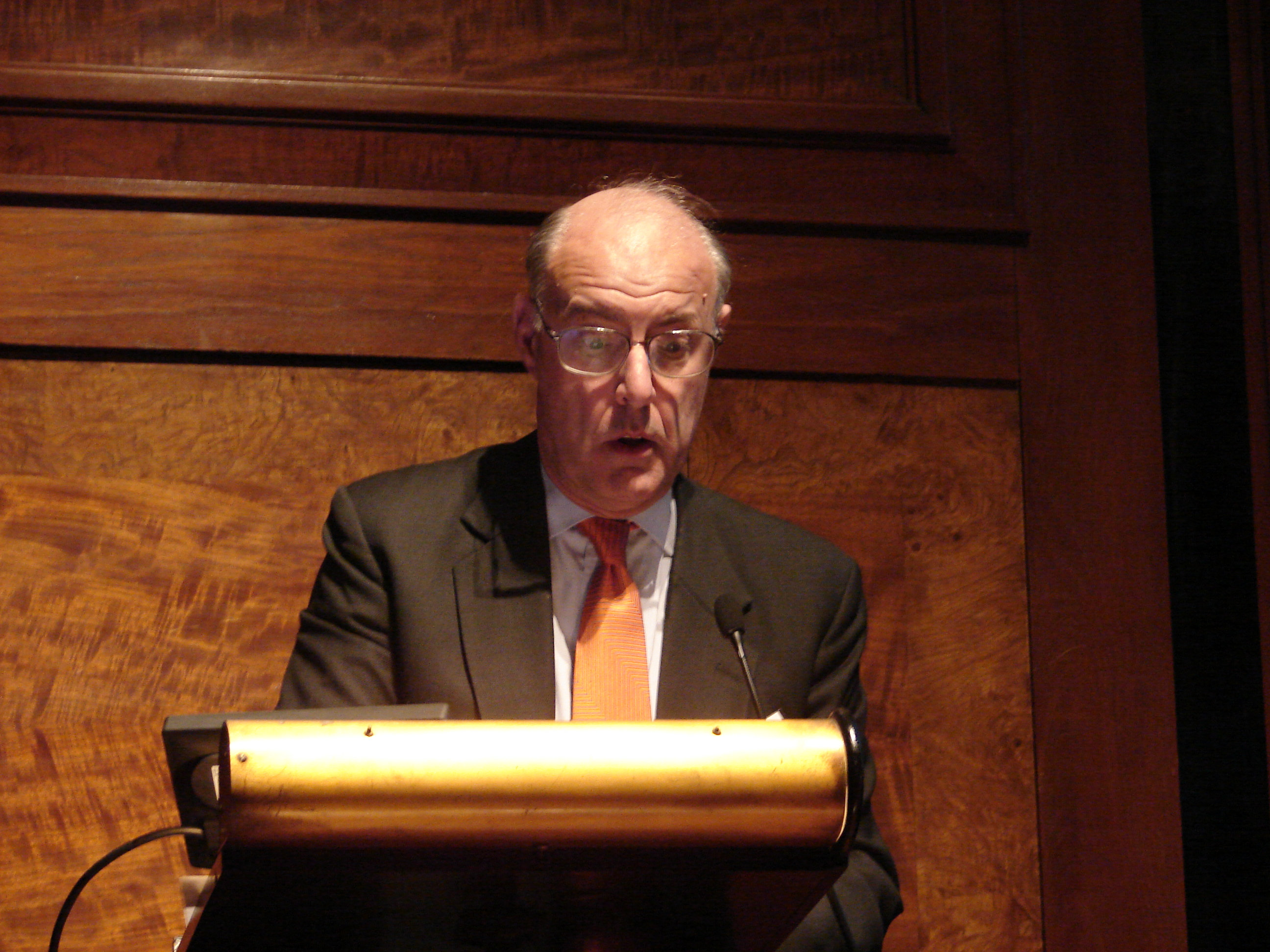 A rather startled-looking introduction to the English Heritage commemorative plaques conference